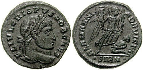 Crispus, Caesar. 317-326 AD. Æ Follis (20mm, 3.15 gm). Sirmium mint. Struck 324-325 AD. FL IVL CRISPVS NOB CAES, laureate head right ALAMANNIA DEVICTA, Victory walking right, holding trophy and palm, trampling bound captive; •SIRM•. RIC VII 49; LRBC 803. Good VF, olive patina.